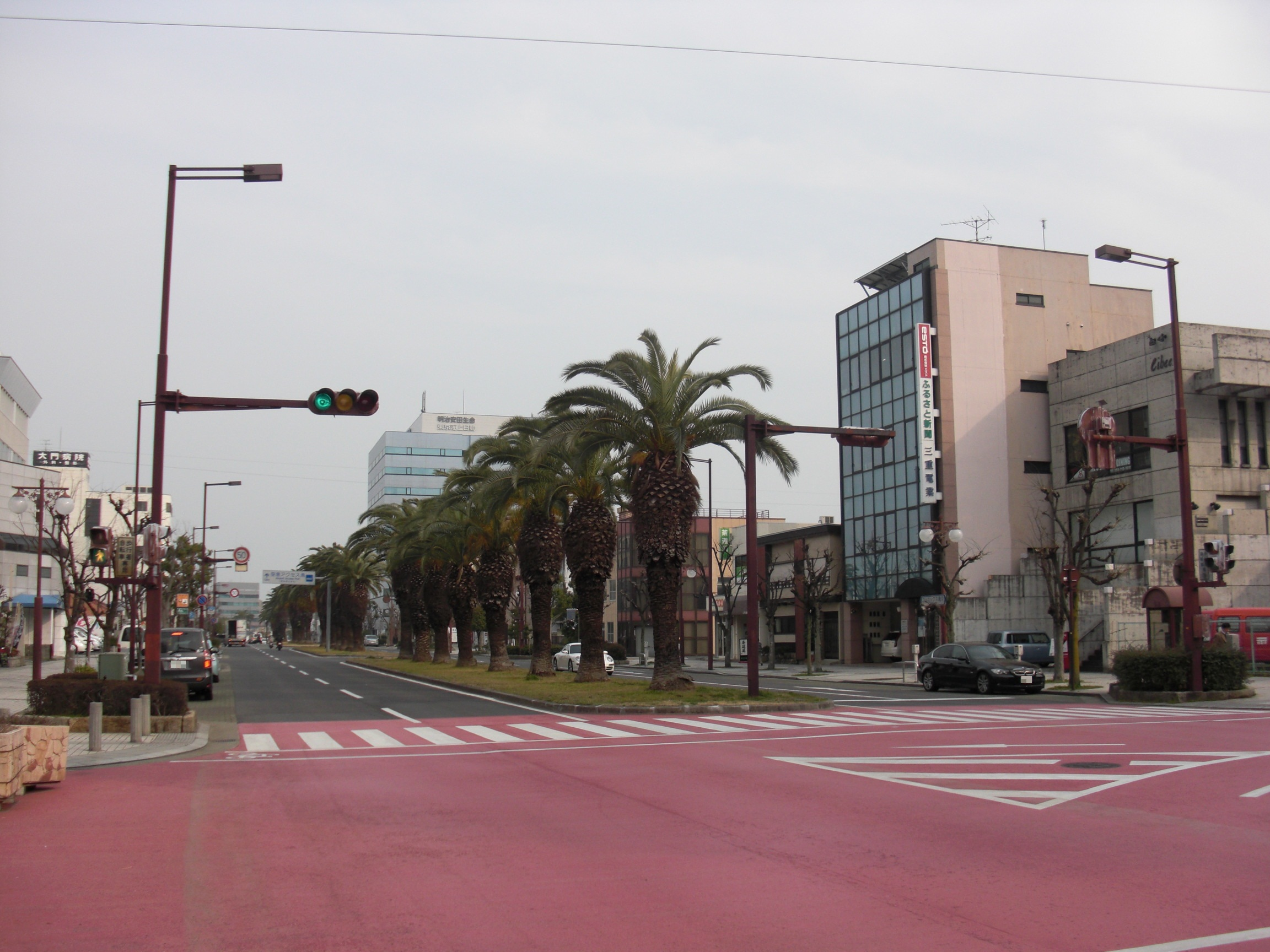 This is the Phoenix street in Tsu, Mie, Japan.